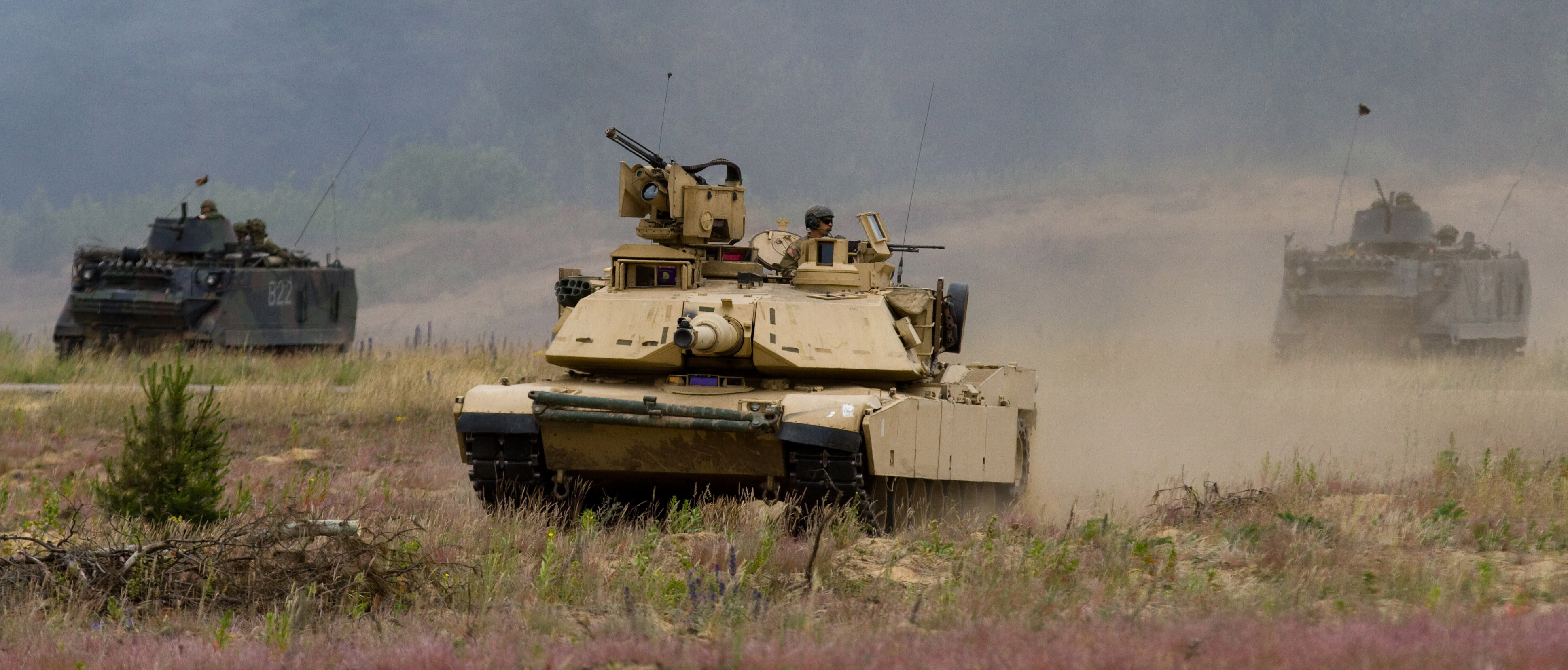 A United States Army Abrams M1A2 Main Battle Tank leads the charge during a battle demonstration along with two Lithuanian Land Forces M113 Armored Personnel Carriers during the final day of Saber Strike 2015 at the Great Lithuanian Hetman Jonusas Radvila Training Regiment, June 18, 2015. Saber Strike is a long-standing U.S. Army Europe-led cooperative training exercise. This year’s exercise objectives facilitate cooperation amongst the U.S., Estonia, Latvia, Lithuania, and Poland to improve joint operational capability in a range of missions as well as preparing the participating nations and units to support multinational contingency operations. There are more than 6,000 participants from 13 different nations. (U.S. Army Photo by Sgt. James Avery, 16th Mobile Public Affairs Detachment)